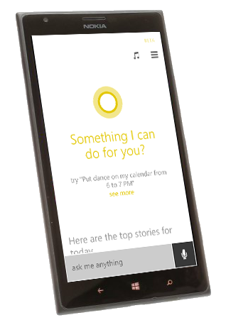 Cortana's start screen, with yellow as the accent color and a light background.